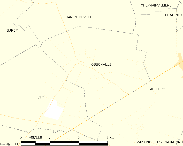 Map of French municipality Obsonville